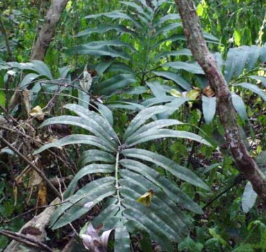 Photo of Stangeria eriopus cycad in a forest.